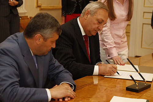 THE KREMLIN, MOSCOW. President of South Ossetia Eduard Kokoity (on the left) and President of Abkhazia Sergei Bagapsh signed the six principles for resolving the conflicts.